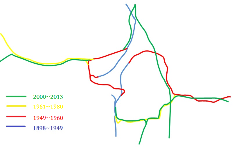 Wuhan Hub 1898~2013